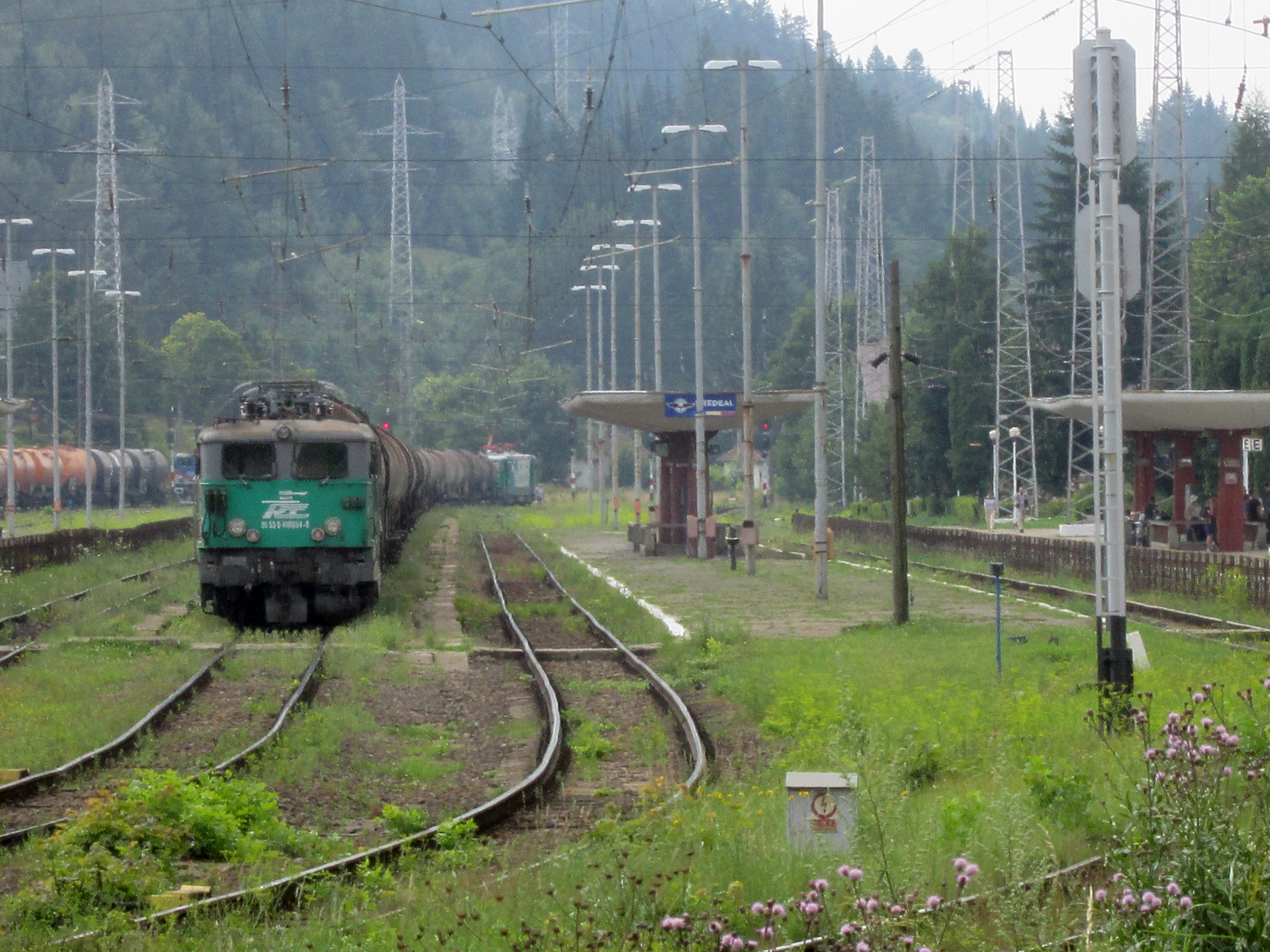 BB 16500 (unknown number, probably (4)16654) being used as a bank engine of a freight train at Predeal rail station